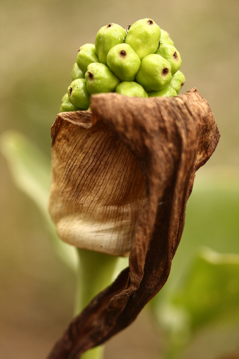 Arum Palaestinum , Plants of Israel